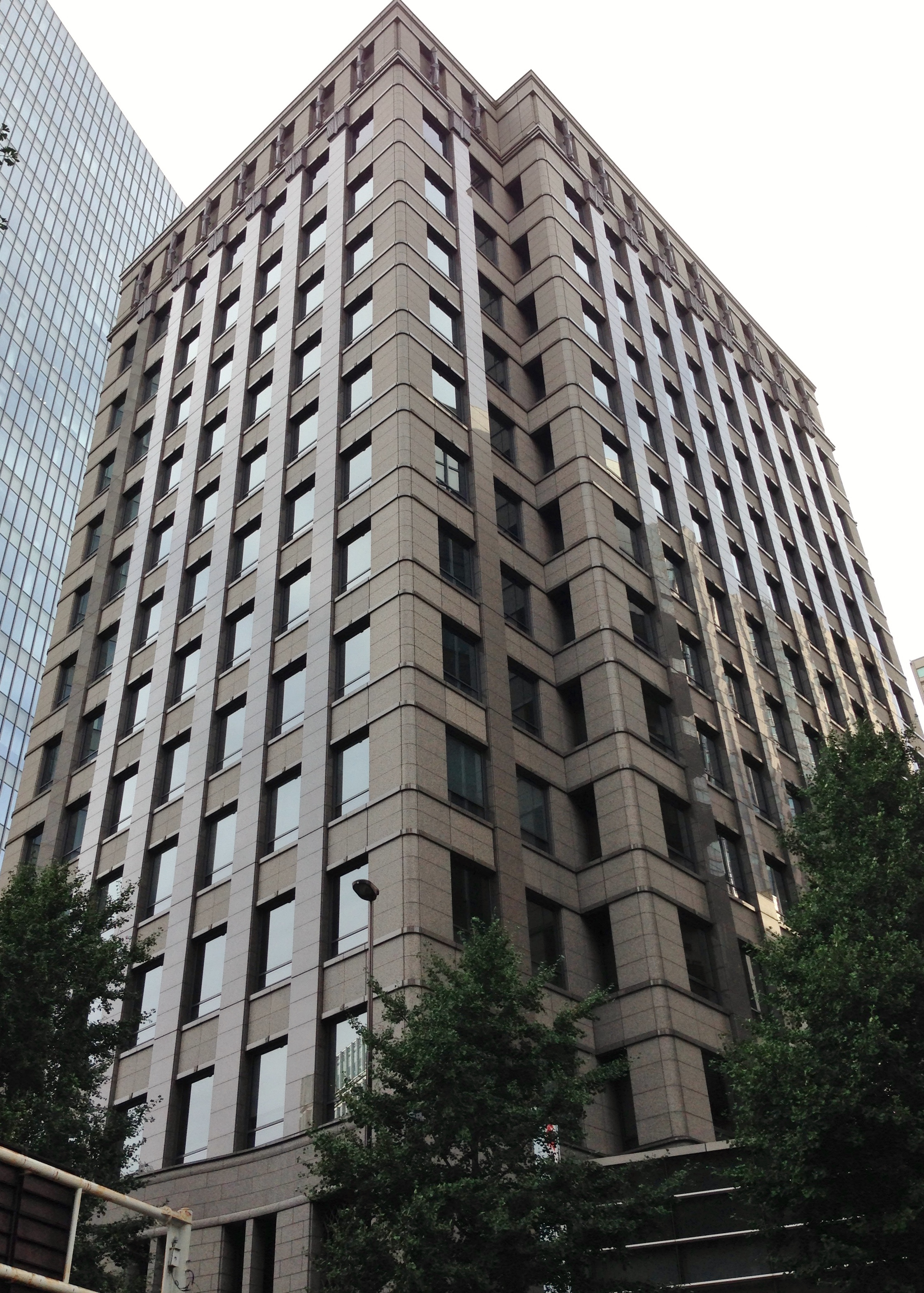 Headquaters of IBJ Leasing Company, Limited